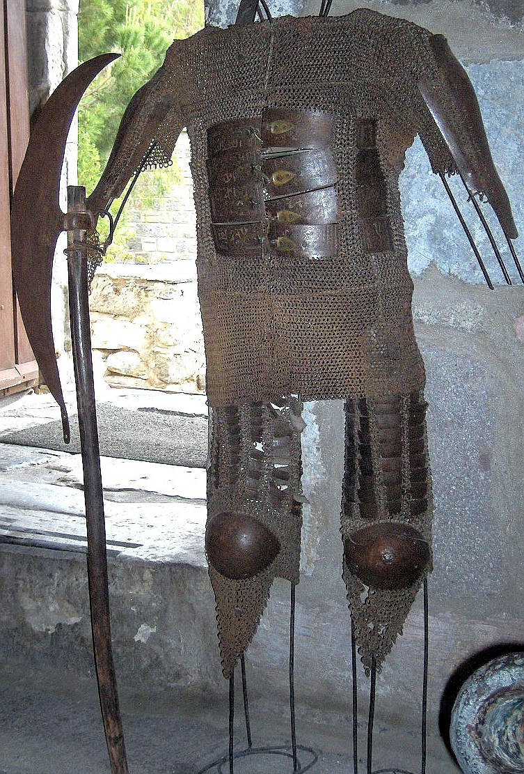 Ottoman Empire zirh gomlak, also ( zirah baktar/bagtar, jawshan, yushman), a mail and plate shirt and mail and plate dizcek (cuisse or knee and thigh armor). This type of mail shirt with attached plates was used by several countries under different names, they seem to have appeared circa 1400 AD, possibly in Iran and very quickly spread to Russia, the Ottoman Empire, India and many Middle-eastern countries. Bodrum Castle, English tower, St. Peter's castle, Bodrum, Turkey